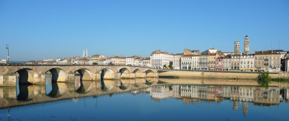 View of Macon (France)